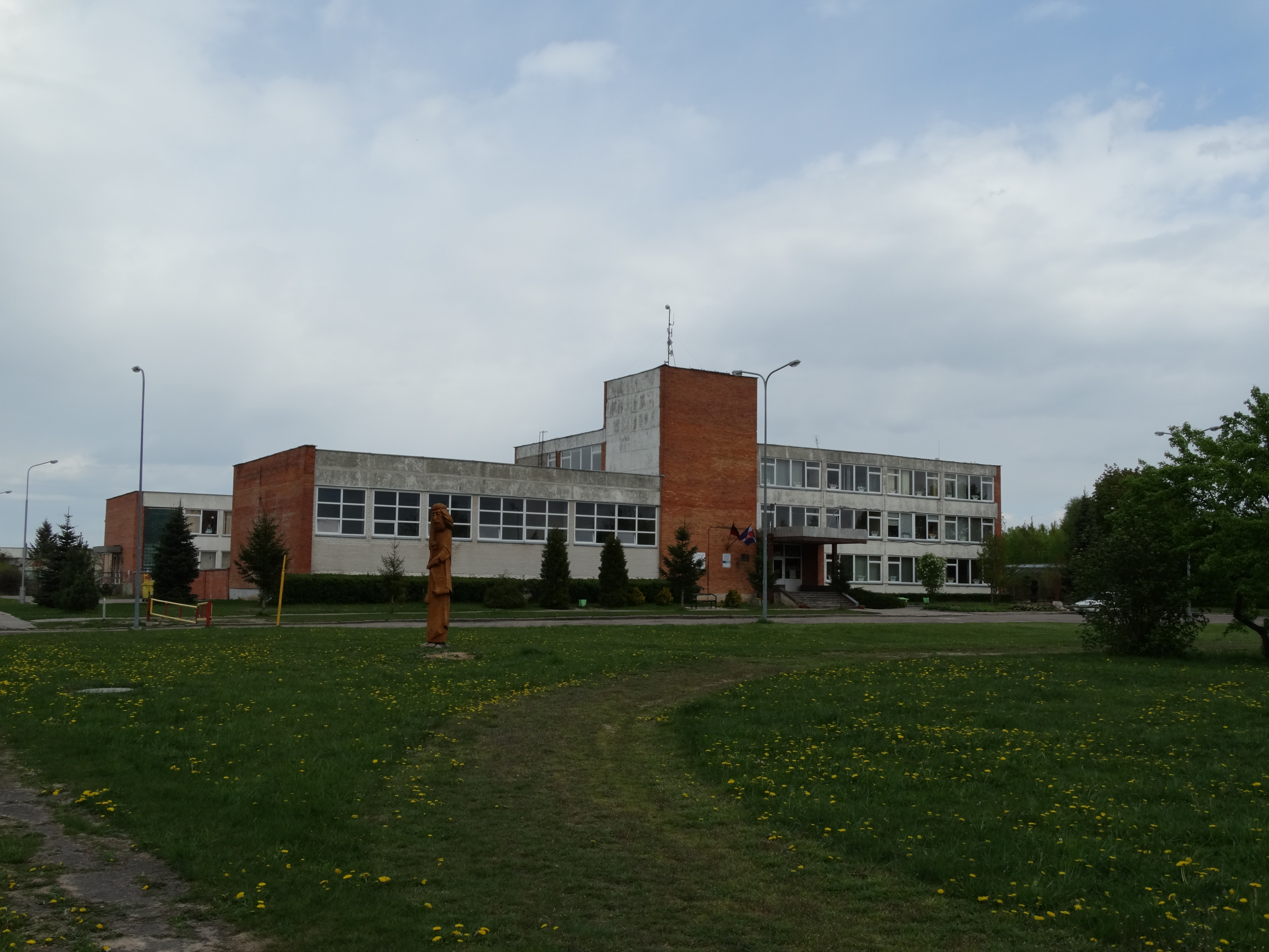 School, Neveronys, Lithuania